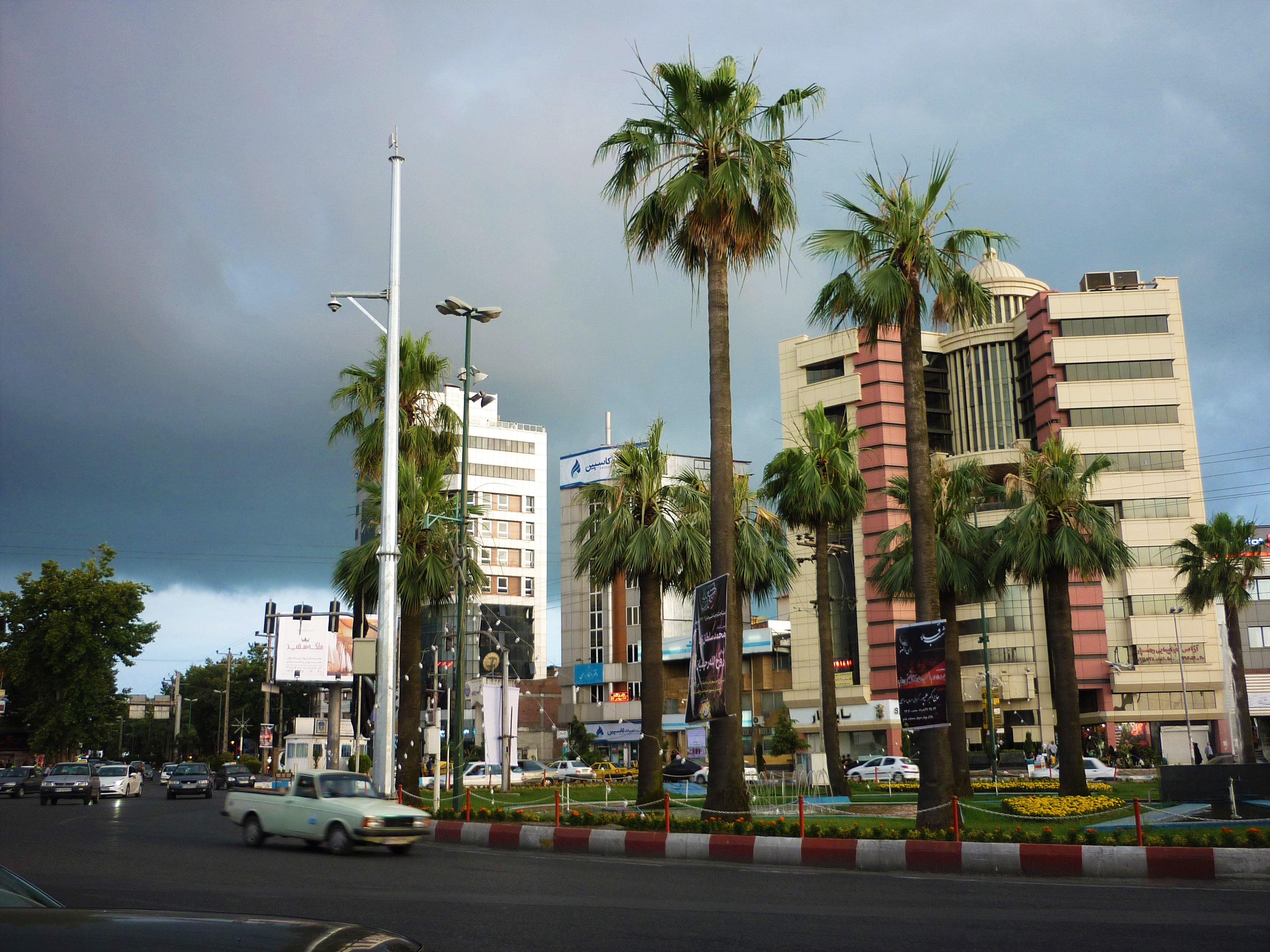 17th of September Square Amol (Falakeh)